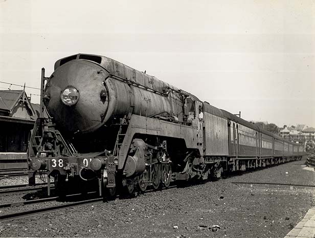 The C3801 locomotive 'Newcastle Flyer' at Stanmore Railway Station Dated: by 31/12/1945 Digital ID: 17420_a014_a014000205 Rights: We'd love to hear from you if you use our photos. Many other photos in our collection are available to view and browse on our website using Photo Investigator.